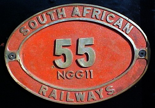 SAR Class NG G11 55 (2-6-0+0-6-2) number plate Builder's Number: BP 6200 Location: Ixopo, Kwa-Zulu Natal